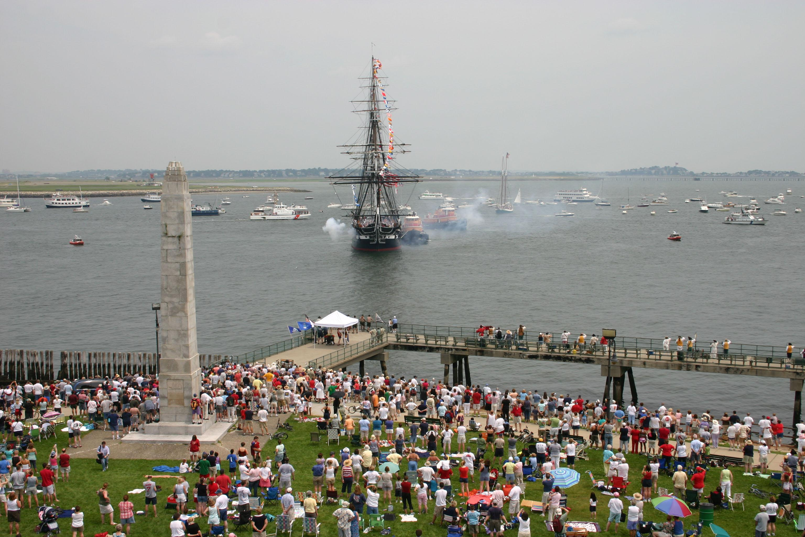 060704-N-8110K-064 Boston (July 4, 2006) - Hundreds of spectators watch as USS Constitution, "Old Ironsides" presents a 21-gun salute to Fort Independence on Castle Island in Boston Harbor. The annual Independence Day turnaround cruise is just one of over 200 scheduled events during Boston Harborfest 2006. The seven-day long festival showcases the colonial and maritime heritage of Boston.